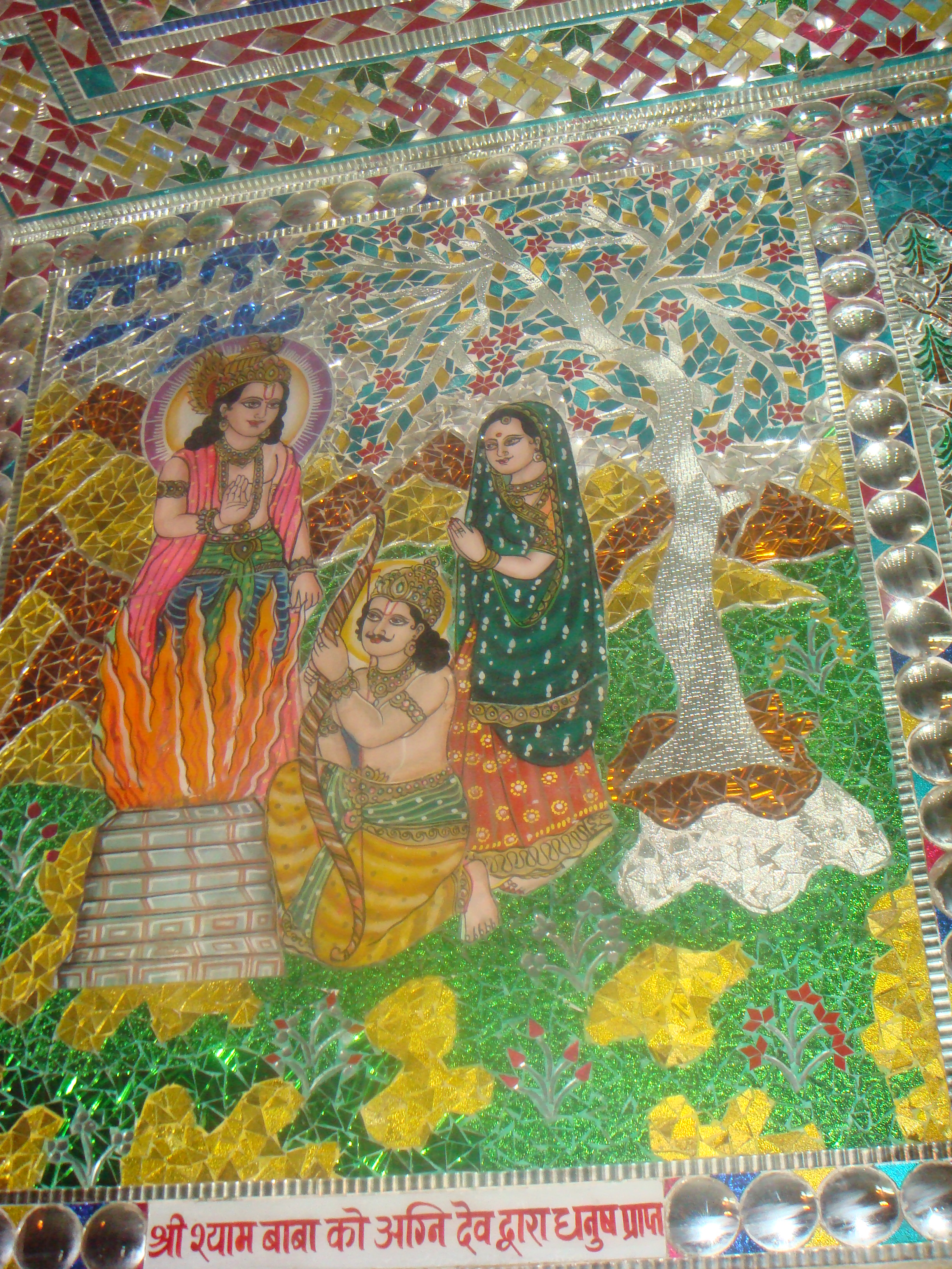 Baba Shyam getting bows from fire god, in the art, hanging in Reengus temple.